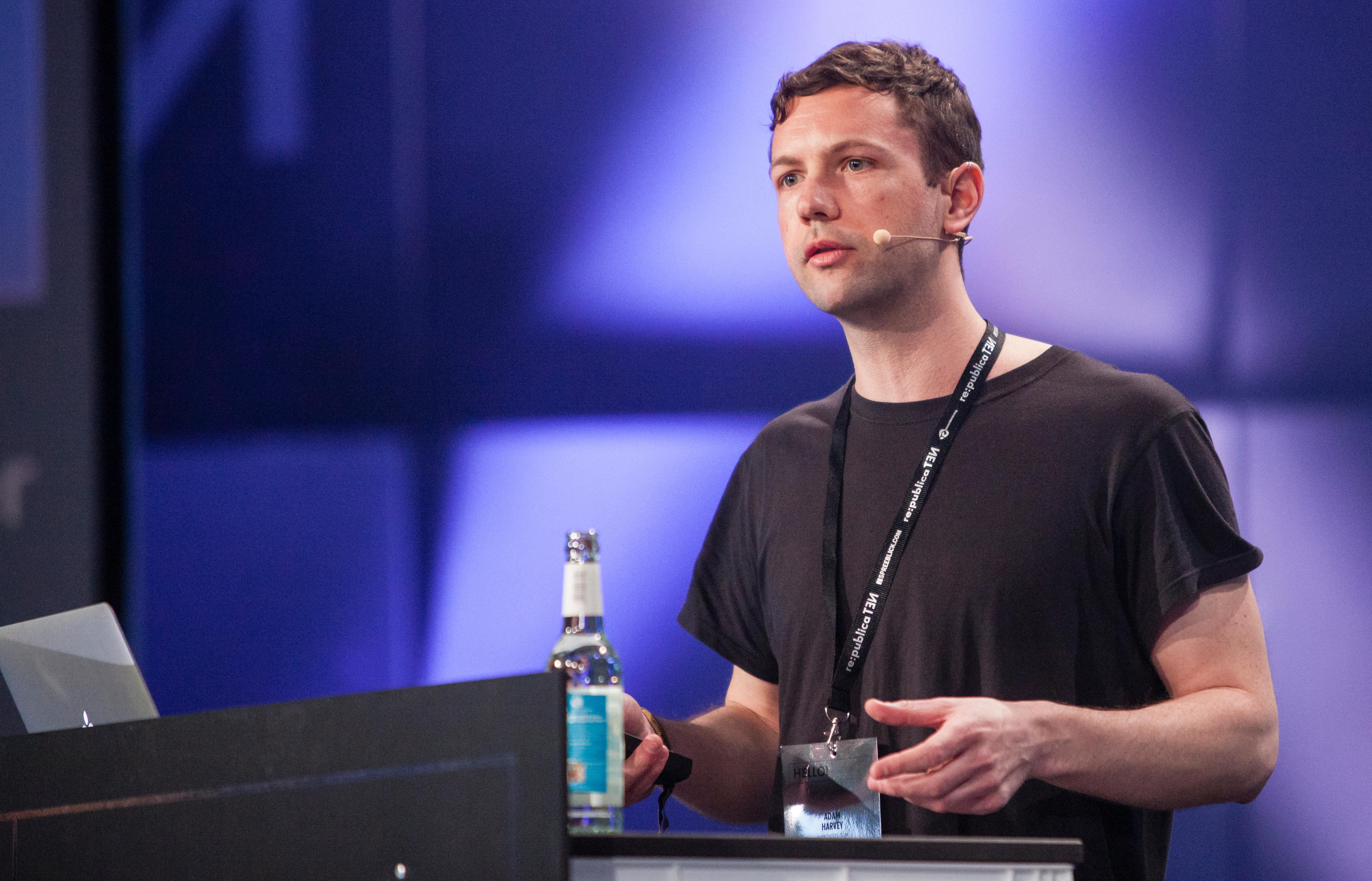 Adam Harvey mit „Through the Looking Glass of Computer Vision“ am 04.05.2016 auf der re:publica in Berlin. Foto: re:publica/Jan Zappner CC BY 2.0